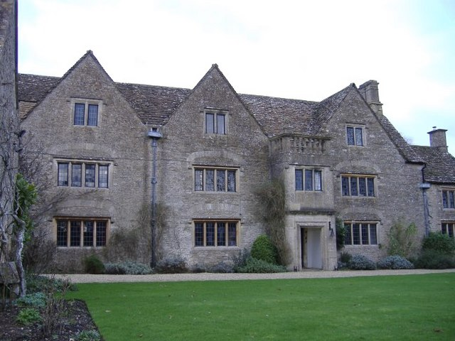 Bolehyde Manor Situated to the north west of Chippenham, in the hamlet of Allington.